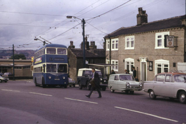 Clayton - Trolley-bus on route 37 Taken in 1972 the year when trolley buses were phased out in Bradford